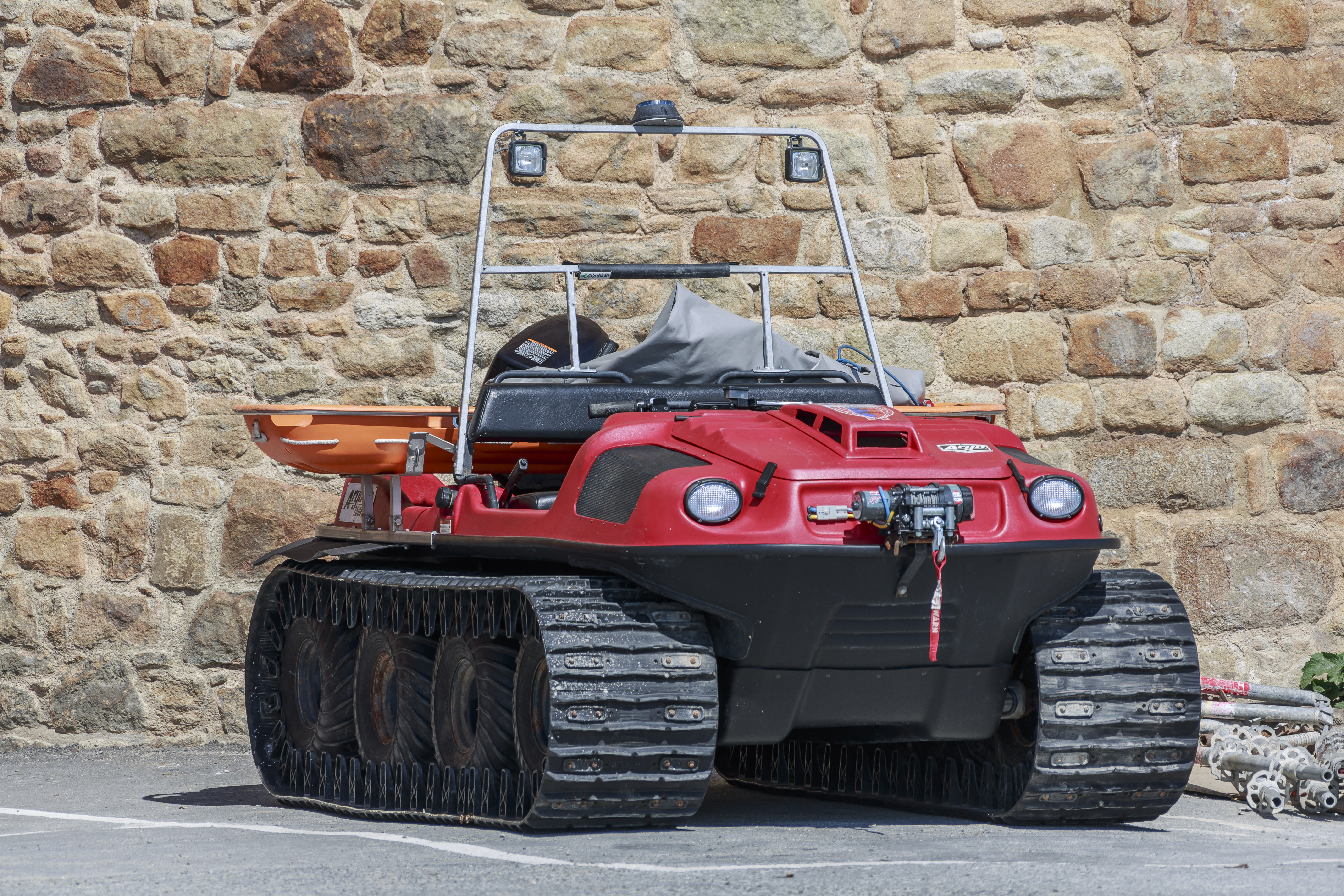 Le Mont-Saint-Michel, France: Amphibian vehicle of the municipality of St. Michel